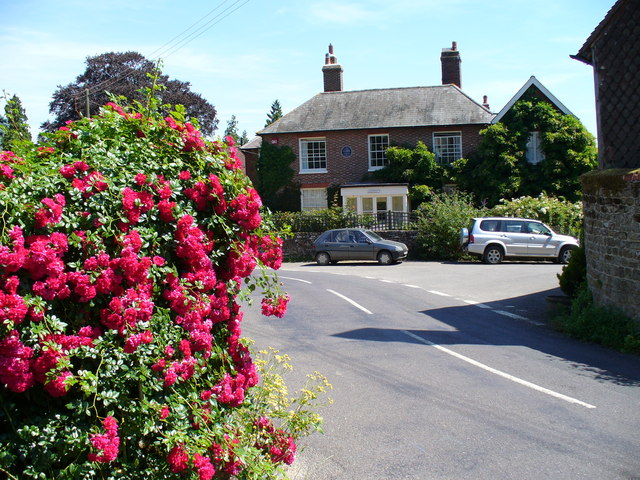 EH Shepard's House, Lodsworth. Shepard illustrated "Winnie the Pooh" and "Wind in the Willows". His cottage, "Woodmancote", is a mixture of dark and light bricks, carries a round blue plaque, and sits on the southern end of the village street.